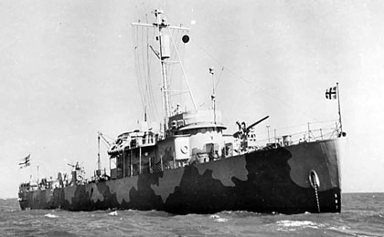 The Royal Norwegian Navy escort ship HNoMS King Haakon VII